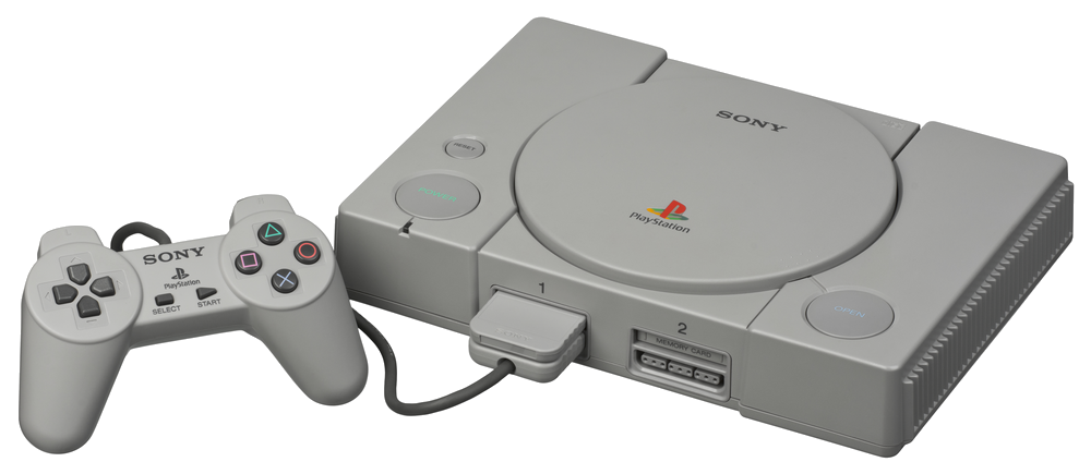 A Sony PlayStation video game console, shown with controller and memory card attached. This is a Japanese SCPH-1000, which was the very first model of PlayStation commercially released. It is similar to the American SCPH-1001 except it also features an S-Video out and comes bundled with the shown SCPH-1010 controller. The SCPH-1010 was a short-lived controller model and was only bundled with the SCPH-1000. It features shorter arms, a shorter cord and lacks a ferrite bead compared to the more common SCPH-1080.